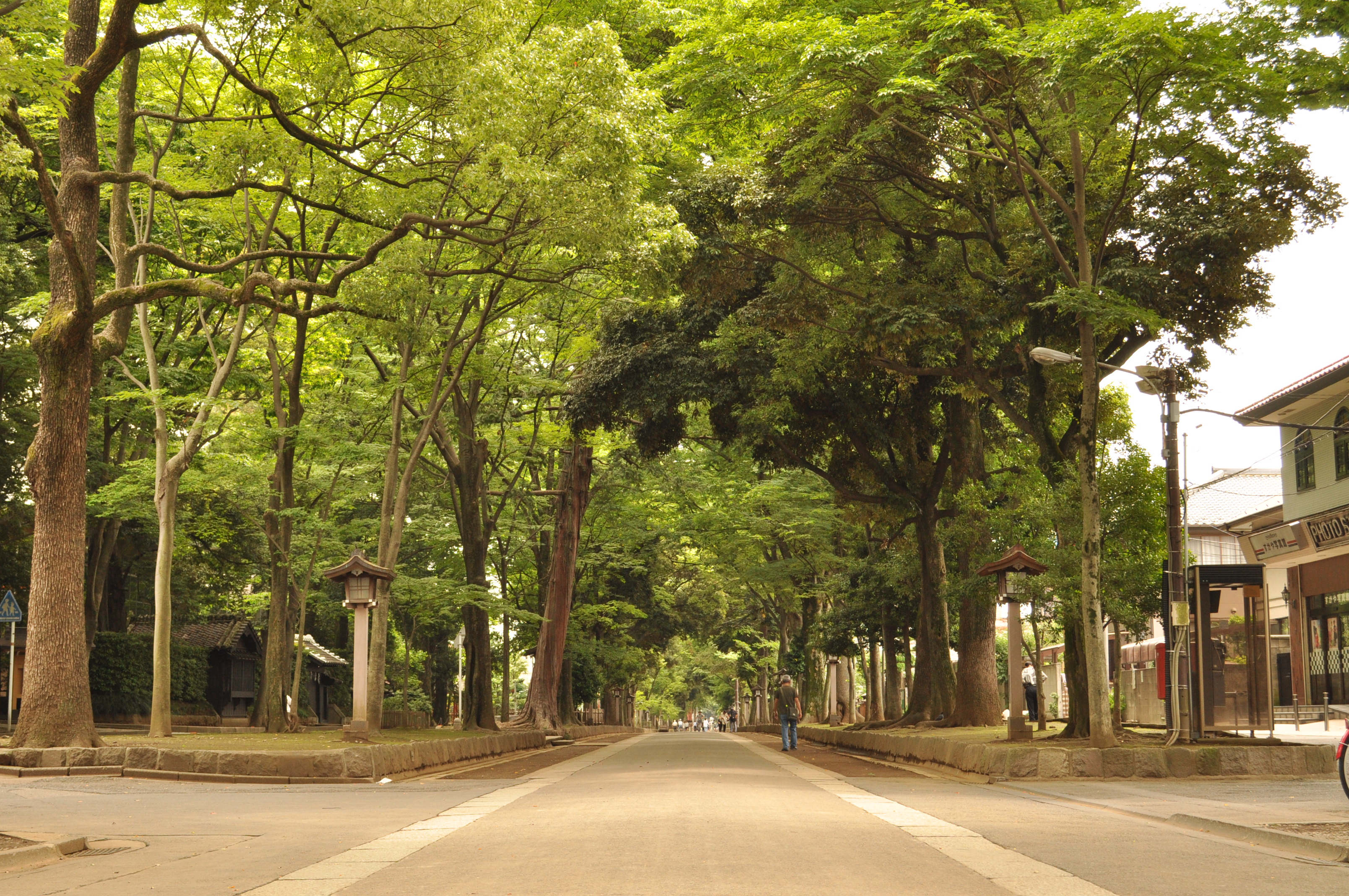 Front approach of the Hikawa shrine